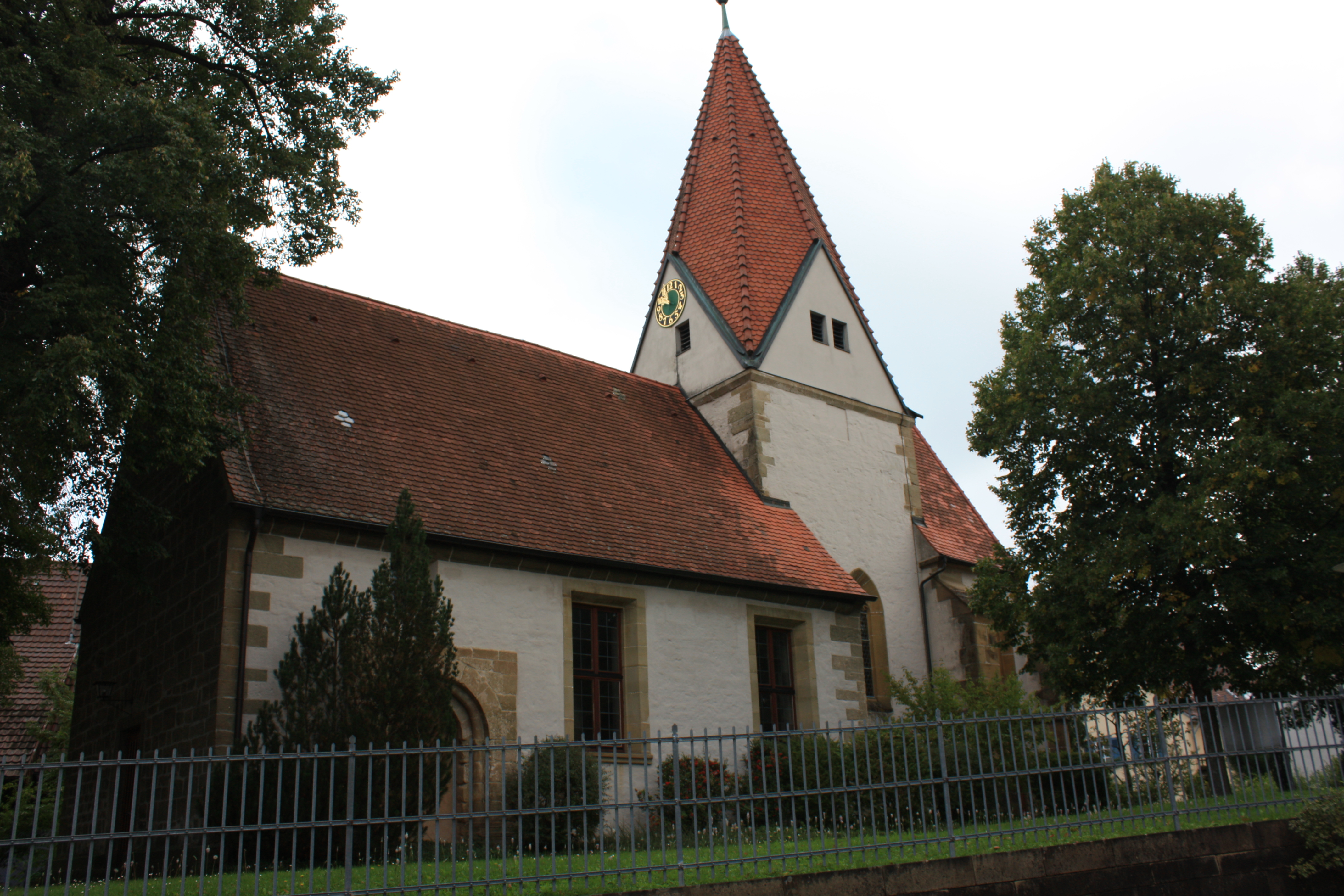 Church St. Michael (Böbingen an der Rems, Germany). Consecrated 1083.